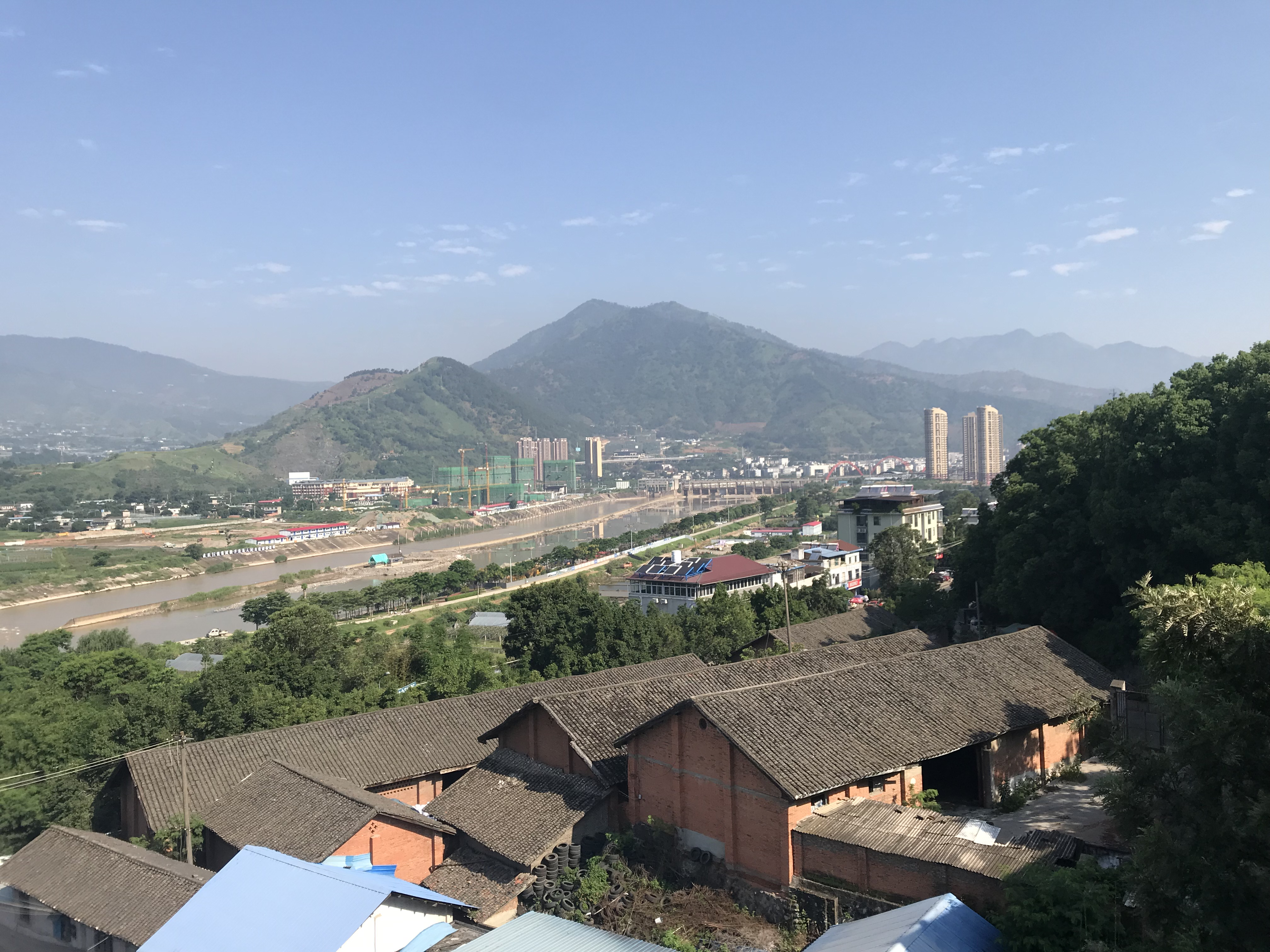 201908 Chengnan Dam of Miyi County